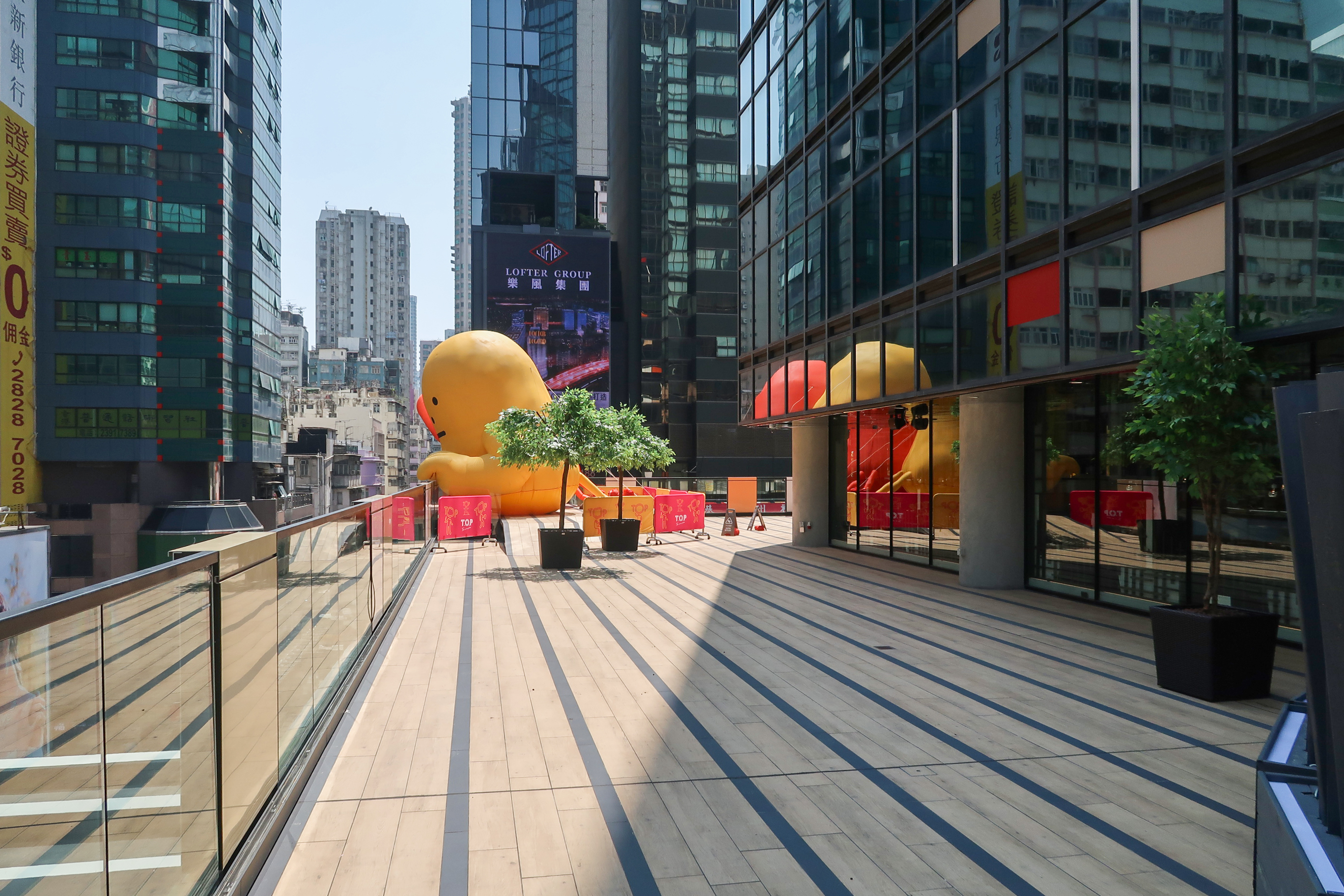 T.O.P This is Our Place Level 5 podium